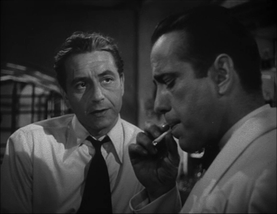 This screenshot shows Paul Henreid and Humphrey Bogart in a conversation about Ingrid Bergman's character, Ilsa.